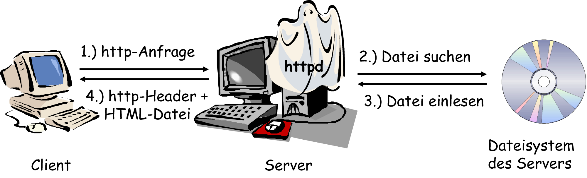 http-Request from browser via webserver and back